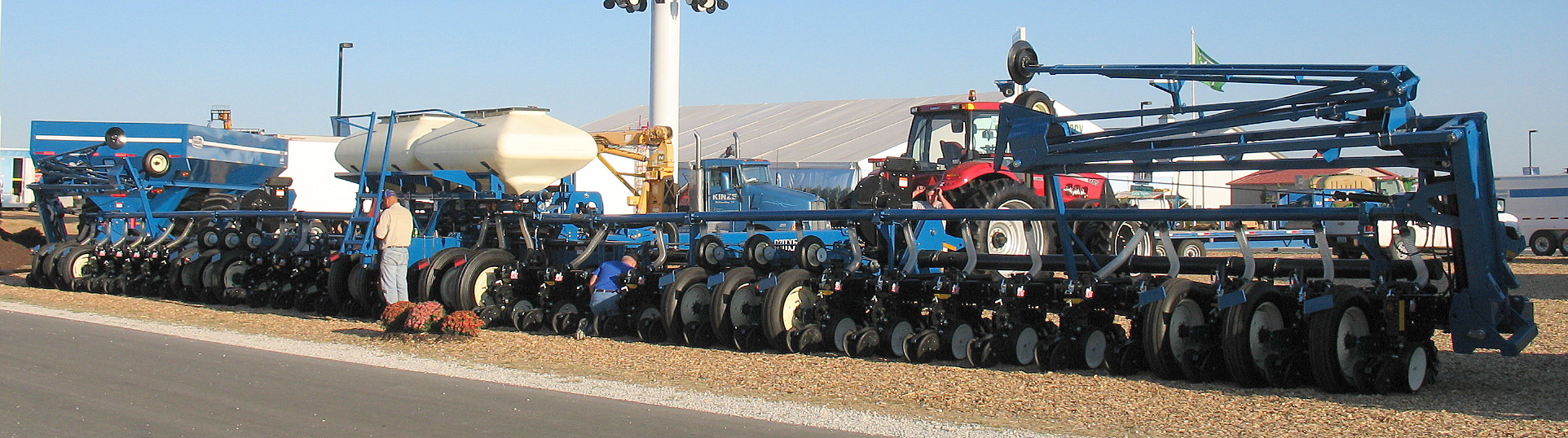 Kinze 3700 ASD 36R Front Folding Planter (air seed delivery, 36 rows, 20" row spacing, 63' 9" planting width, 13' 8" transport width), Farm Progress Show 2007, Illinois, USA